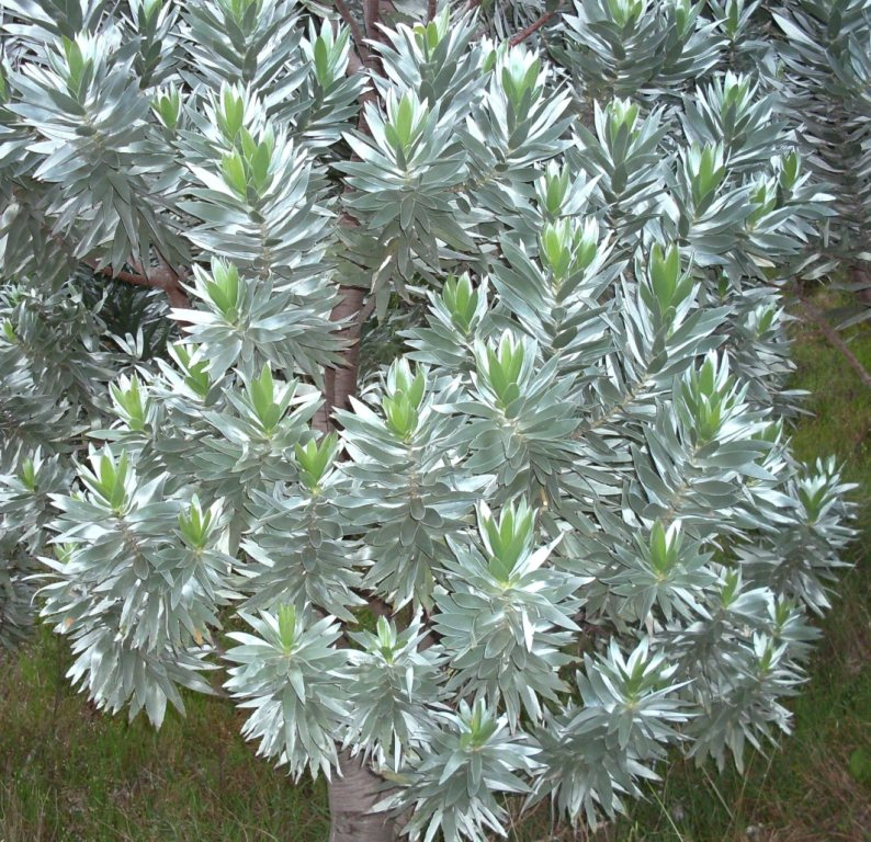 Detail of foliage of Silvertree. Cape Town.